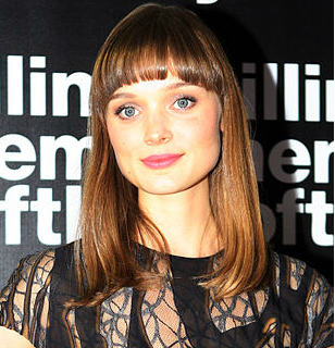 Bella Heathcote at the Killing Them Softly movie premiere at Dendy Opera Quays in Sydney, Australia.